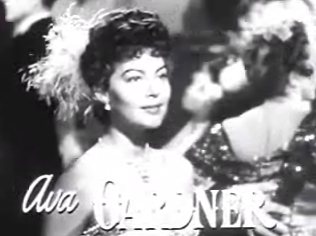 Cropped screenshot of Ava Gardner from the trailer for the film My Forbidden Past.